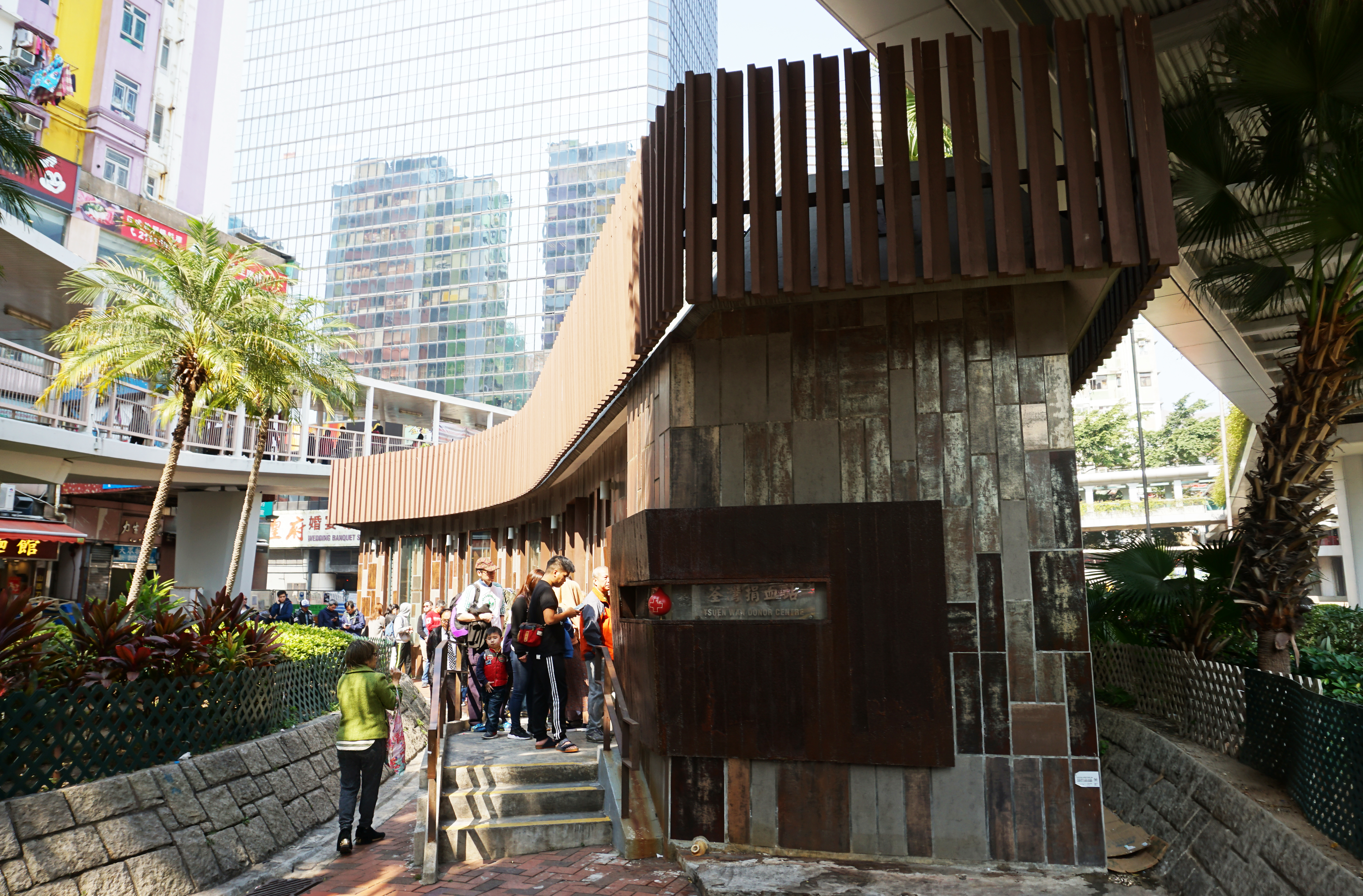 Double-decker Bus Tilted Incident in Tai Po Road, Hong Kong.